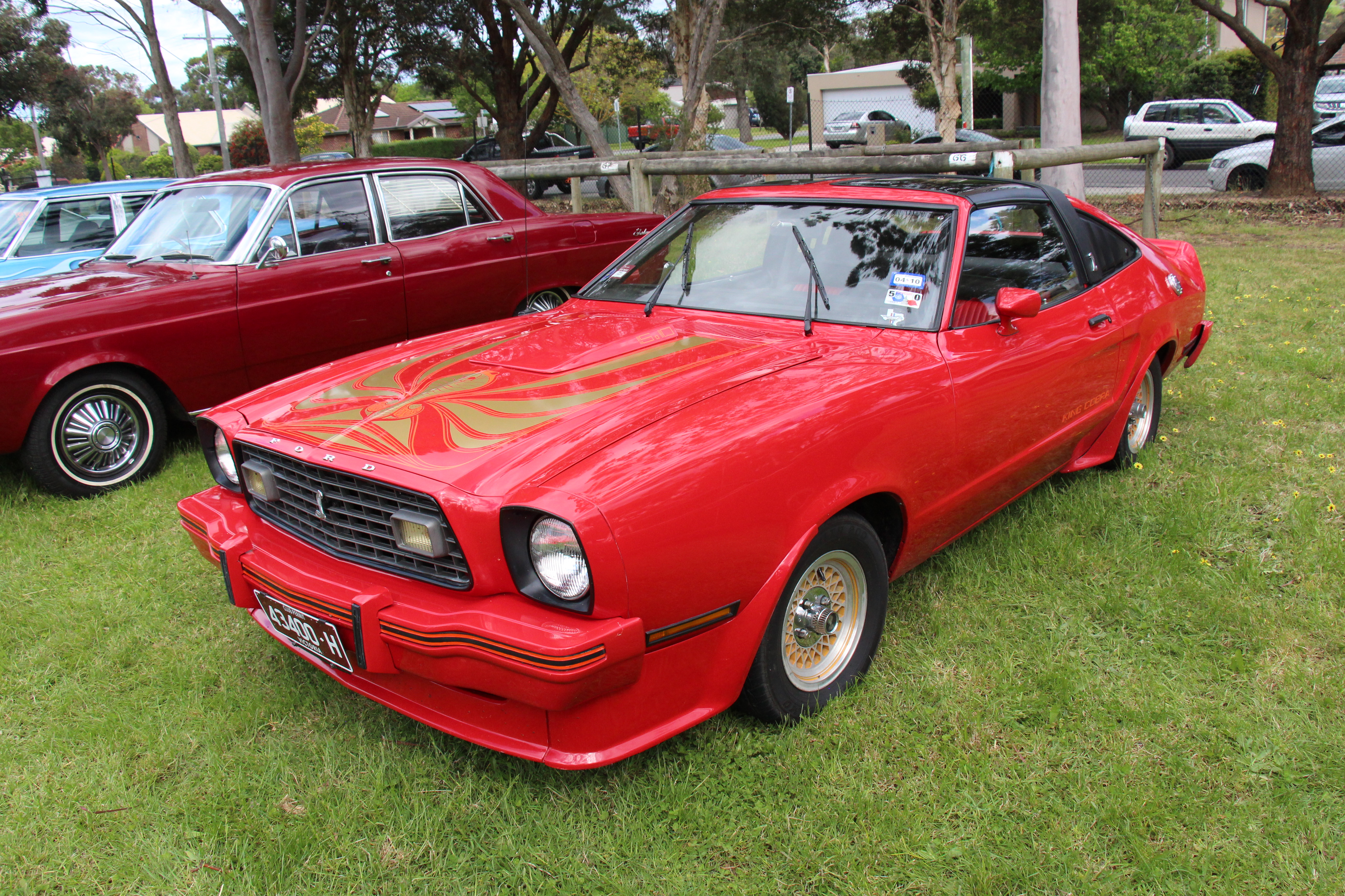 Bright Red. Fords Pony car, the Mustang was first introduced in April, 1964. With the 1974-78 second generation, Lee Iacocca wanted to bring the Mustang back to a small, sporty, luxurious, personal car to follow the world trend. The Mustang II, the first Mustang to be offered with a 4 cyl. (used until 1993) Simulating the earlier Shelbys, the Cobra II appearance package was introduced in 1976 with simulated hood scoop, front and rear spoilers and cobra-themed graphics. Note, hood scoops went from facing forward in 76 to facing rearward in 77. The King Cobra, (4313 made) got a cobra snake decal on the hood was available in 1978. The T top was an option in 1977 on only the Hatchback Two body styles were available, the 2 door Hardtop Coupe with woodgrain instrument panel and the 3 door Hatchback with brushed aluminium instrument panel. The Coupe available in Standard or the luxury Ghia, the Ghia, from 1975, with opera windows and vinyl roof. The Hatchback available in Standard or the V6 Mach 1. The sporty Mach got dual tail pipes, and a Tu-Tone paint job, black on the lower body and rear taillight panel. Engines; 88hp 140 cu in 4 cyl, 105hp 171 cu in V6 and 134hp 302 V8